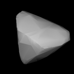 3D convex shape model of 748 Simeïsa, computed using light curve inversion techniques. J. Hanuš, J. Ďurech, M. Brož, B. D. Warner (June 2011). "A study of asteroid pole-latitude distribution based on an extended set of shape models derived by the lightcurve inversion method". Astronomy and Astrophysics 530: A134. ISSN 0004-6361. arXiv